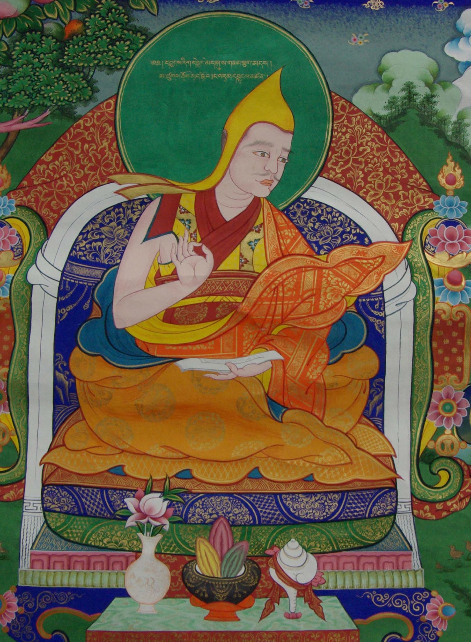 The Fourth Kirti, Lobzang Jamyang b.1656 - d.1708